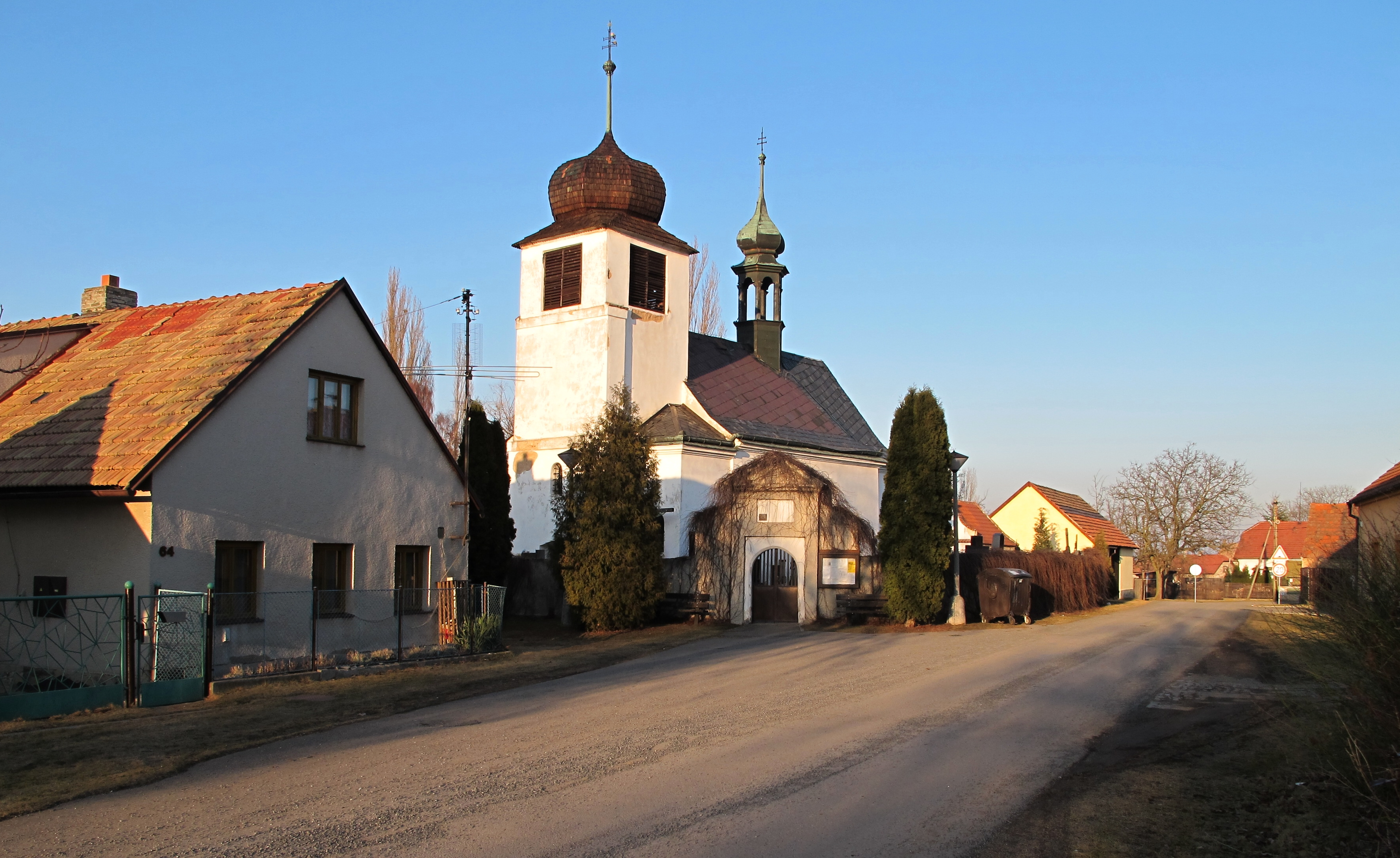 Church of the St. John the Evangelist, Dlouhá Lhota in Příbram District, Czech Republic